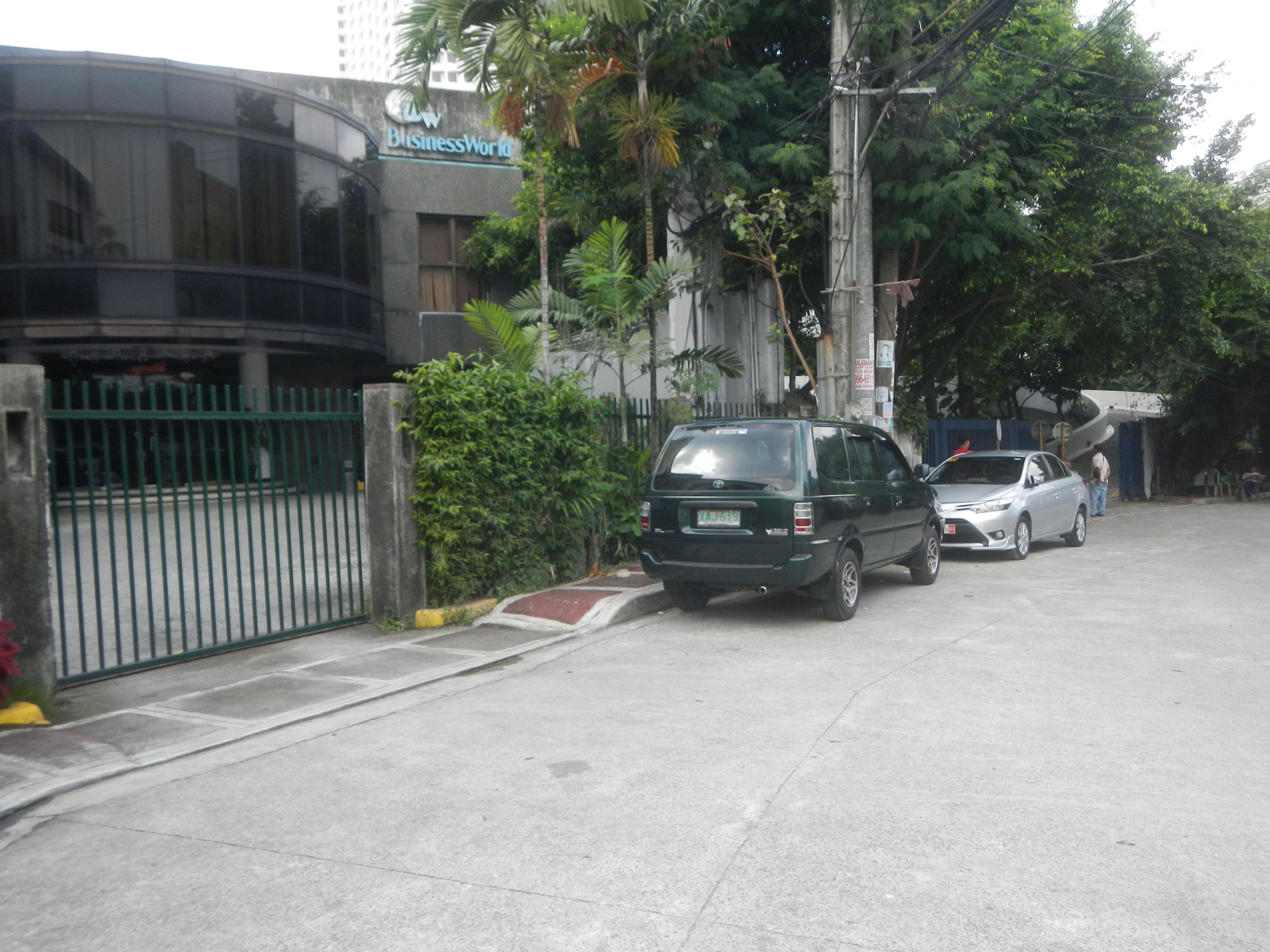 Buklod ng Pag-Ibig Healing Center Founded February 11, 1995 Balete Drive Extension, Kristong Hari, Quezon City Philippine Cooperative Center (Agapito "Butz" Aquino Building, Balete Drive Extension, Kristong Hari, Quezon City) Butz Aquino BusinessWorld 95 Balete Drive Extension BusinessWorld Balete Drive Haunted highway List of haunted locations in the Philippines Major roads in Metro Manila in the List of barangays of Metro Manila Legislative districts of Quezon City Districts 3, Barangays of Quezon City, Barangay Kristong Hari 14°37'28"N 121°1'31"E beside Mariana 14°37'1"N 121°2'13"E New Manila, Quezon City upon the List of rivers and estuaries in Metro Manila Diliman Creek from San Juan River (Metro Manila) Estuaries in Cubao, Quezon City along Aurora Boulevard (Note: Judge Florentino Floro, the owner, to repeat, Donor Florentino Floro of all these photos hereby donate gratuitously, freely and unconditionally all these photos to and for Wikimedia Commons, exclusively, for public use of the public domain, and again without any condition whatsoever).